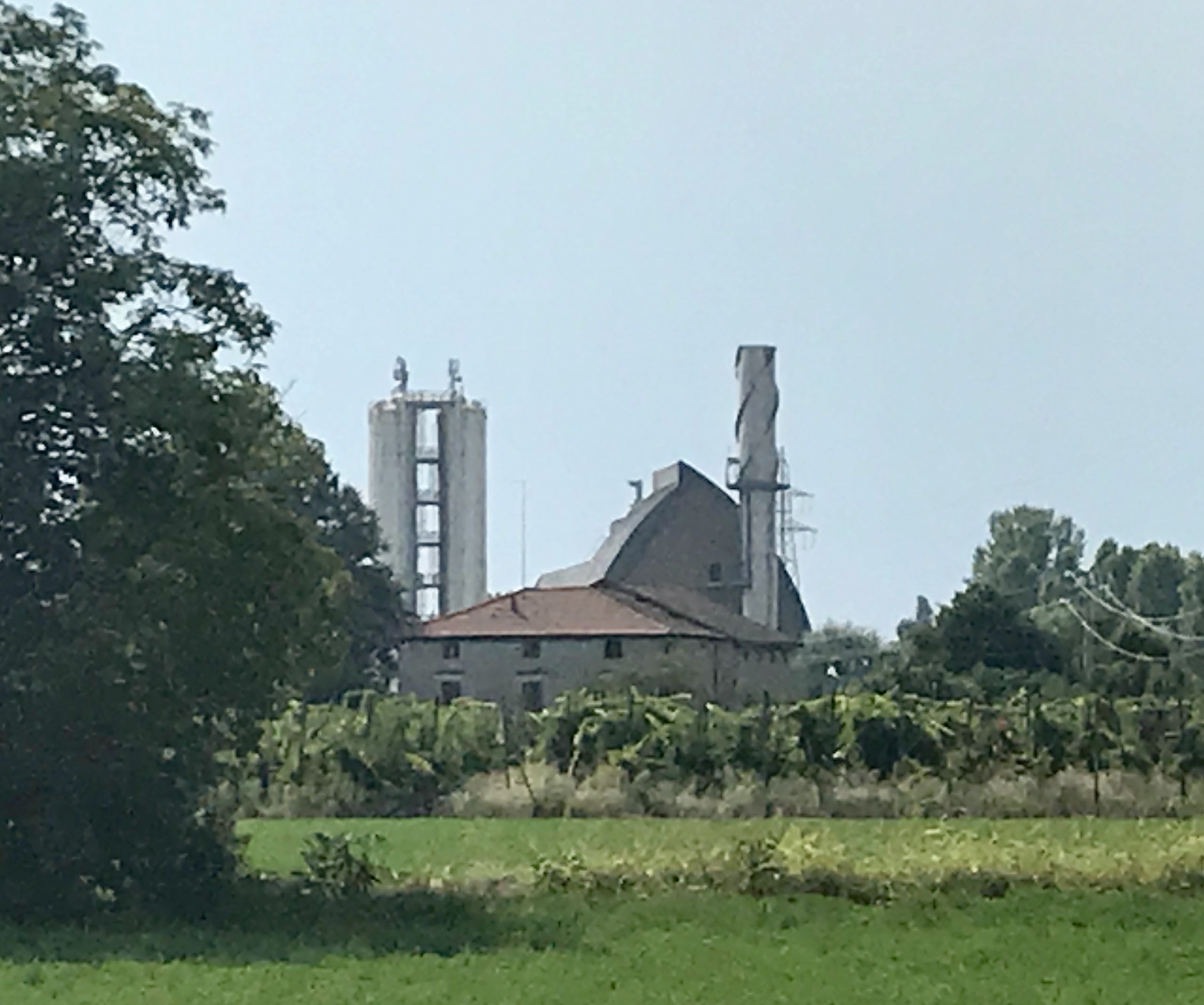 District heating plant in Reggio Emilia, Italy